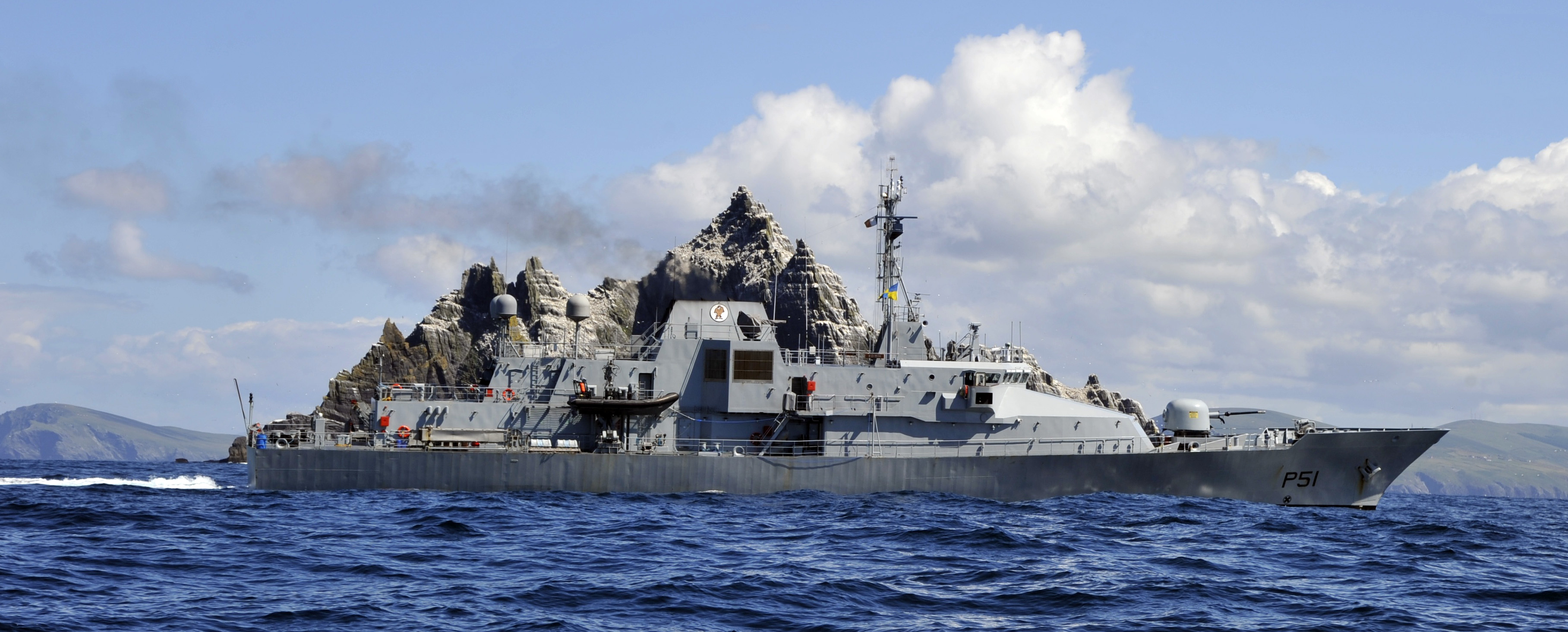 LE Niamh passes the Skelligs on patrol